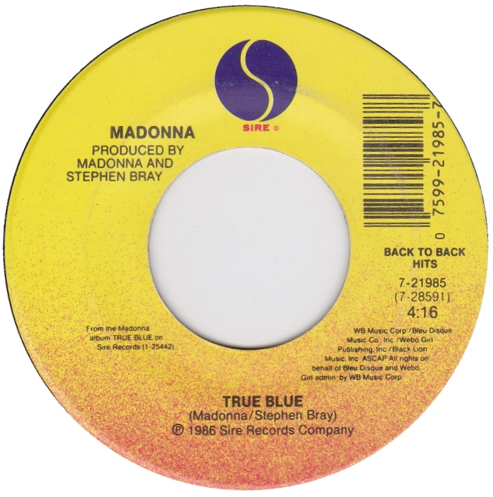 A label of U.S. vinyl release of "True Blue" by Madonna